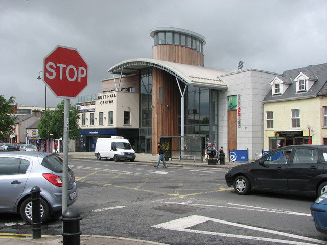 Balor arts centre Ballybofey/Stranorlar Arts Centre in Main Street.